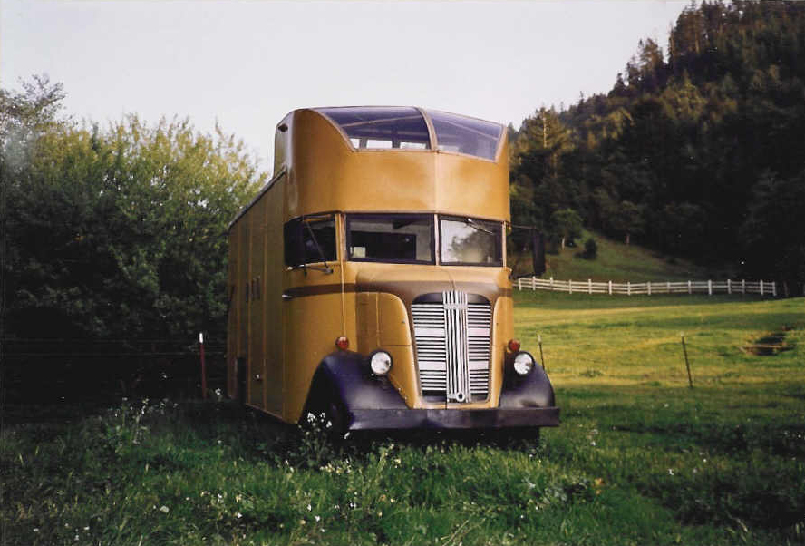 Gypsy home built in 1968 on a 1937 GMC F-16 Chassis. The framework is oak, and the interior is handcrafted in fine woods and leather with antique furniture. It can sleep six (a double bed is located in a loft beneath the dome visible above the cab), and it has a full-sized stove, a sink, a shower, hot and cold running water, a coal burning stove, a living/dining area and a back porch. Originally named "Leviathan," the truck was present on the first day of building People's Park, April 20, 1969. It was also driven, with friends, to a Spring, 1969 love-in on the top of Mount Tamalpais near San Francisco. The Floating Lotus Magic Opera Company, a dance and theater group created by Daniel Moore, traveled in the truck when they lived communally and rehearsed performances on forested land south of San Francisco during the late 1960's. The truck was a regular feature at Renaissance Pleasure Faires in both Northern and Southern California, and it toured most of the West Coast between 1968 and 1971--Los Angeles, Santa Barbara, Big Sur, San Francisco, Berkeley, Mendocino, Portland and Seattle. The truck has been restored and now serves as a guest house.